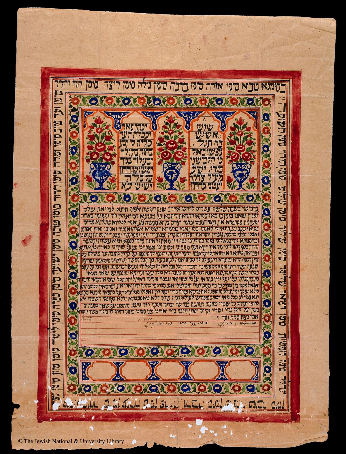 Ketubah from The Ketubot Collection of the National Library of Israel